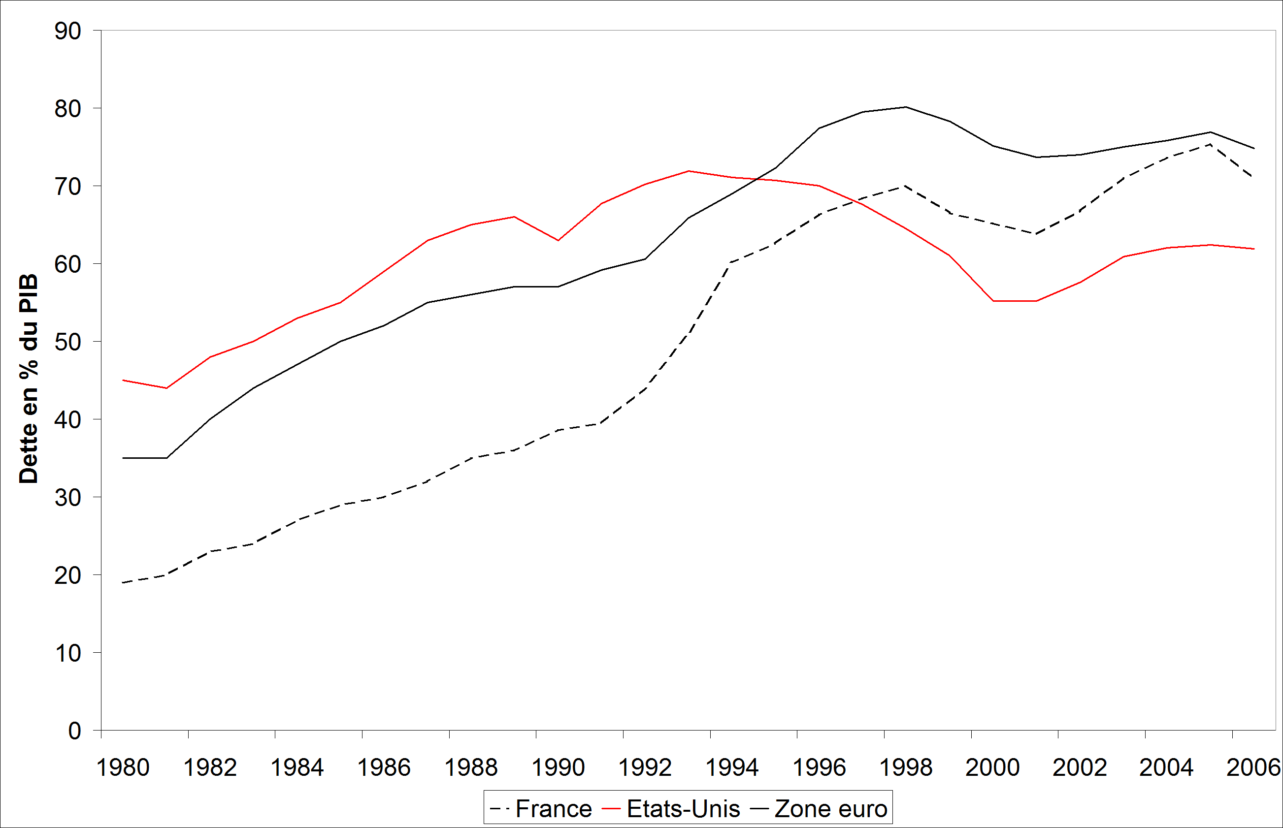 Government debt as a % of GDP, based on OECD data